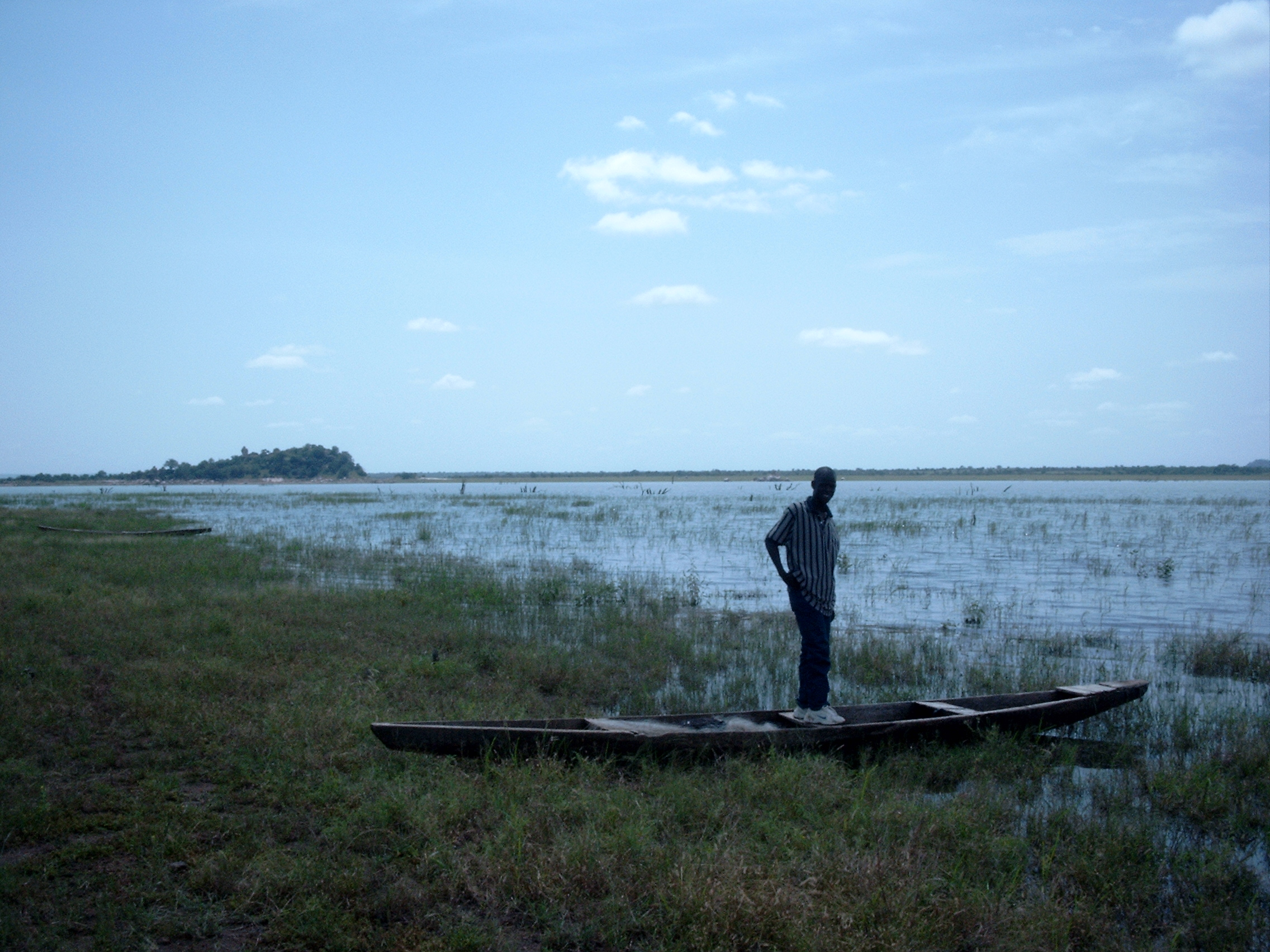 edge of the Kompienga lake, eastern Burkina Faso